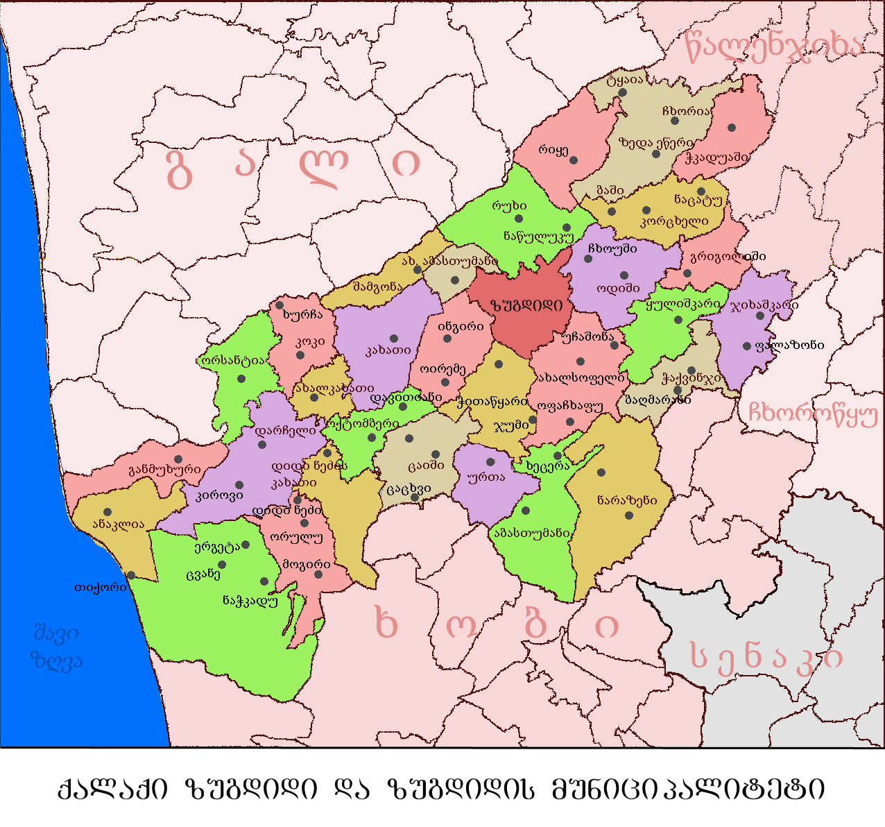 Self-governing city of Zugdidi and Zugdidi Municipality administrative map, Samegrelo-Zemo Svaneti Region, Georgia